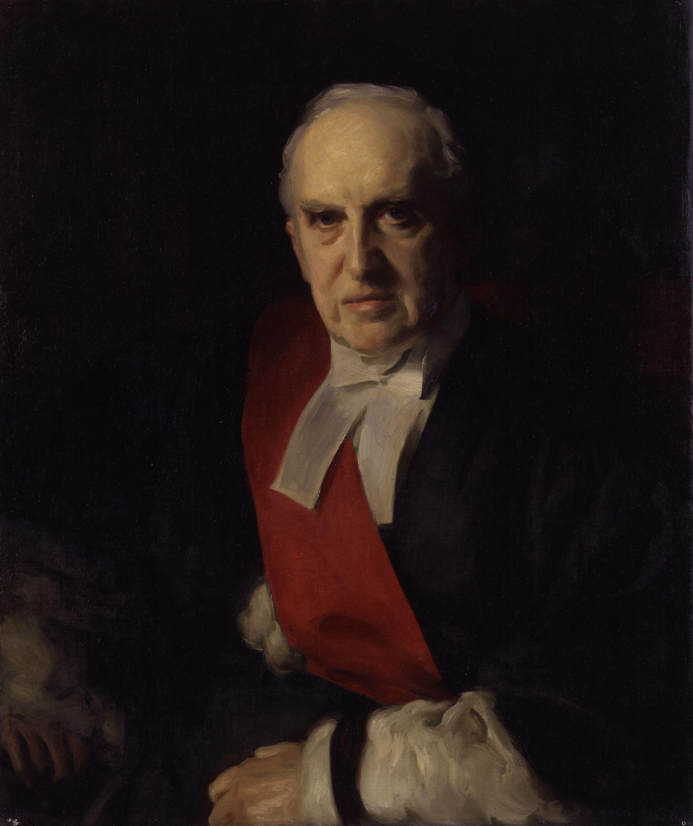 Charles Arthur Russell, Baron Russell of Killowen, by John Singer Sargent (died 1925), given to the National Portrait Gallery, London in 1921. All images in this batch have been confirmed as author died before 1939 according to the official death date listed by the NPG.